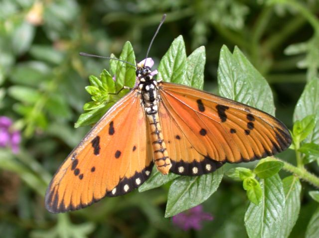 Tawny Coster Acraea terpsicore adult